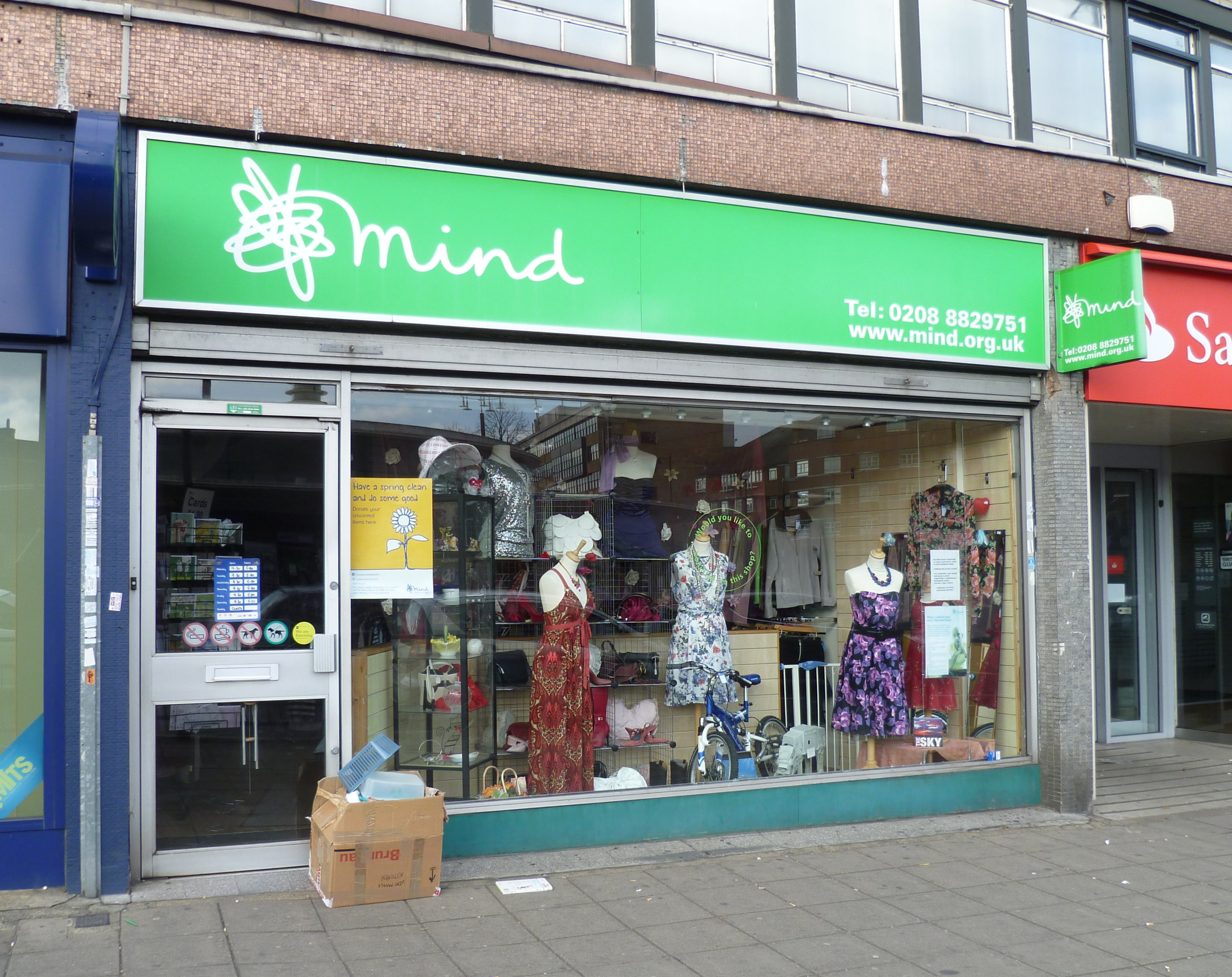 Mind charity shop, Chase Side, Southgate.